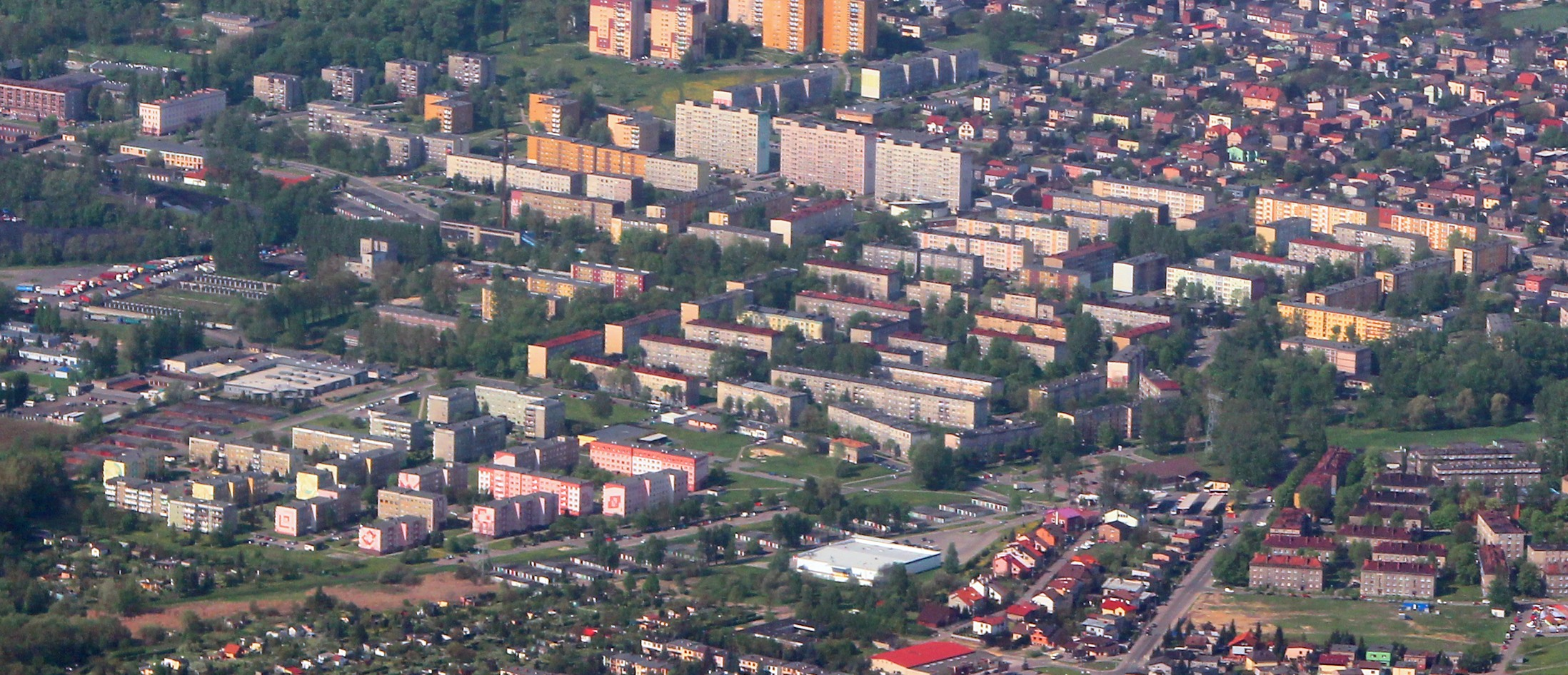 View from the northeast towards Wieczorka district in Piekary Śląskie, Poland.